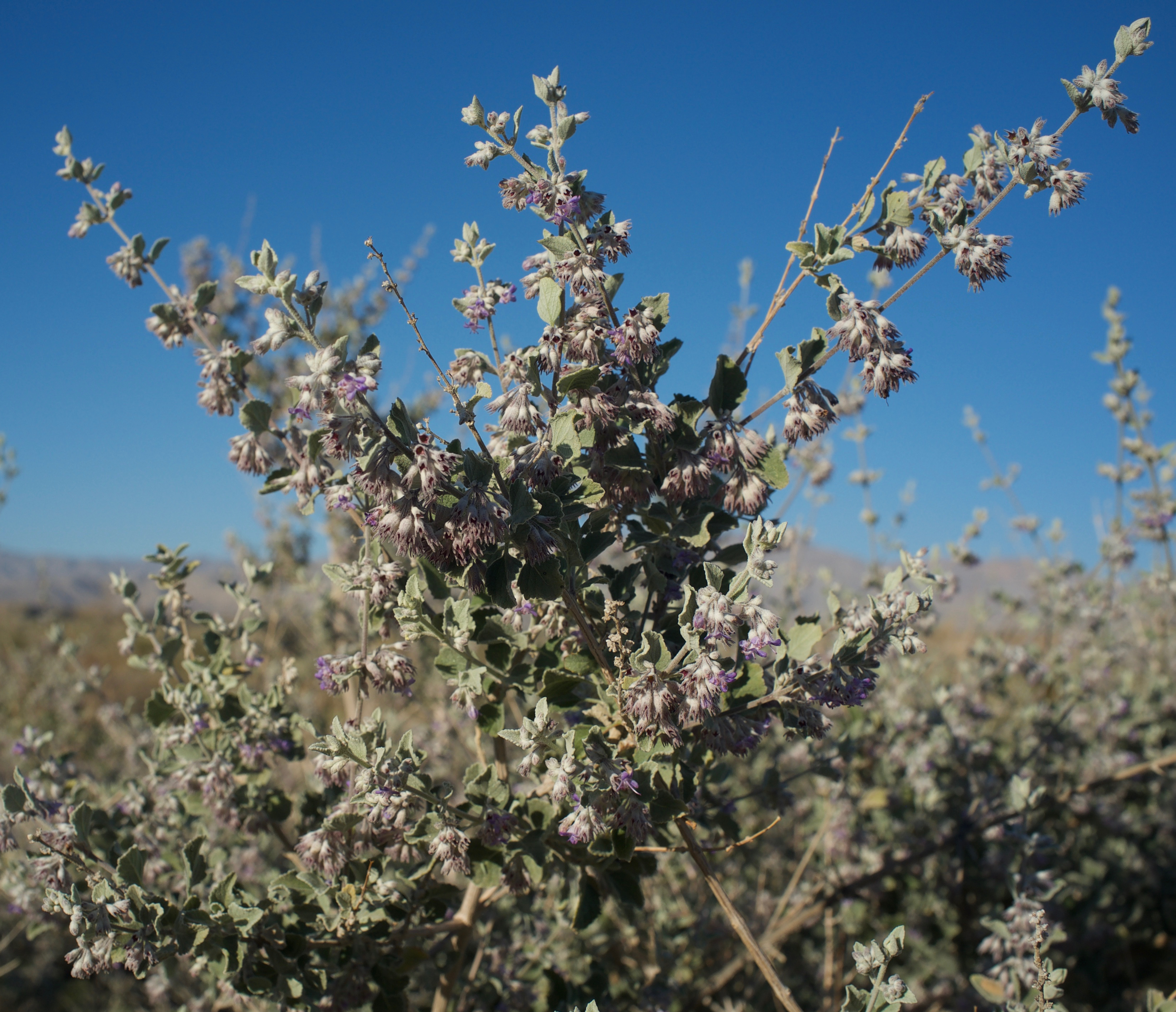 Coachella Valley near Pushwalla Plateau Northern Colorado Desert elev. ~600 ft,/182 m.